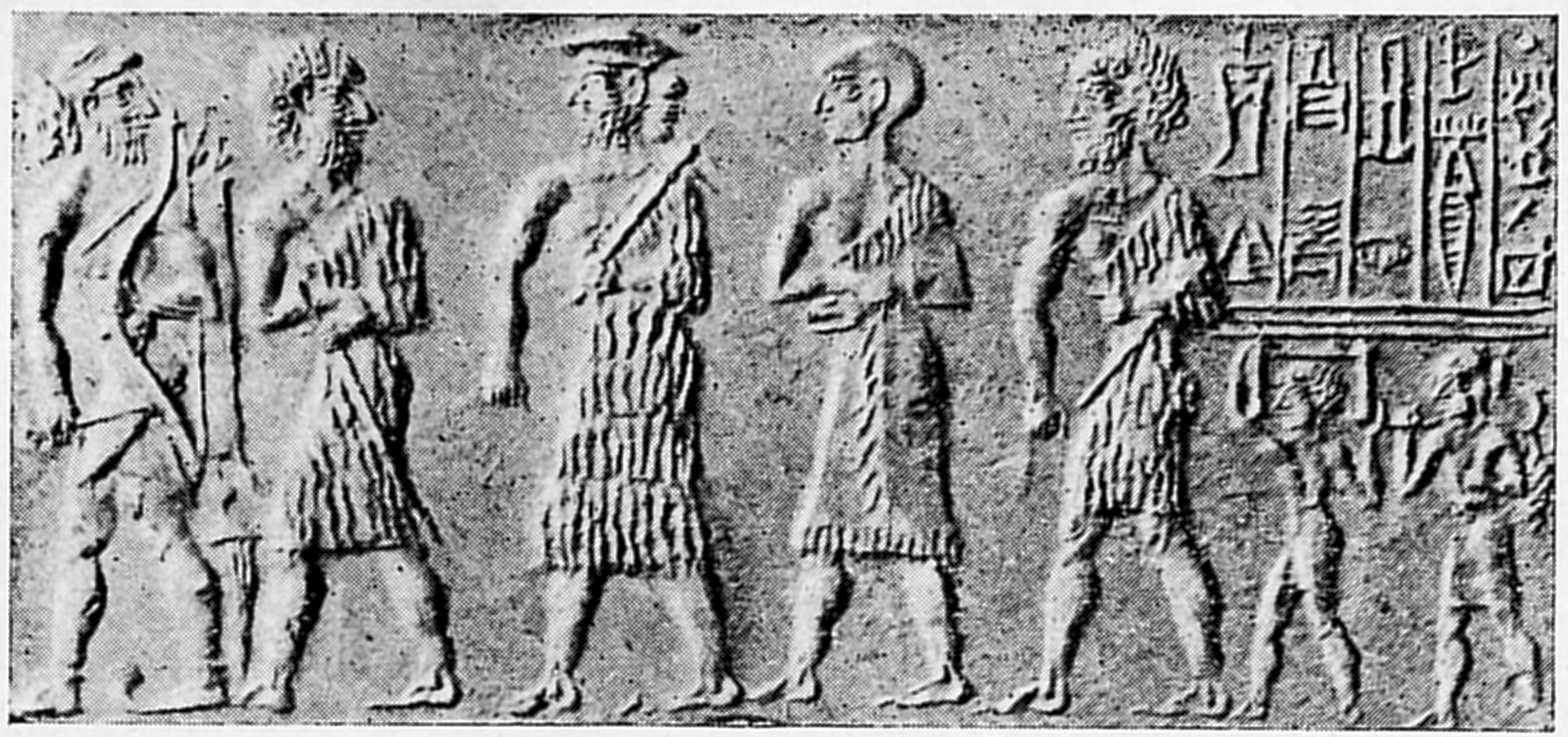 Cylinder seal of the scribe Kalki (photograph)